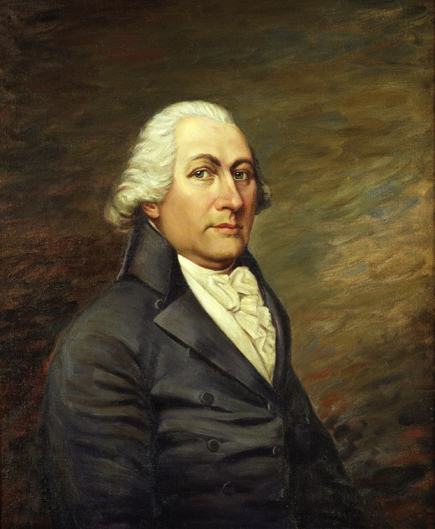 John Langdon by Hattie Elizabeth Burdette (1872 - 1955) Oil on canvas, 1916 Sight measurement Height: 29.25 inches (74.3 cm) Width: 24.25 inches (61.6 cm) Signature (lower right corner): HEBurdette Cat. no. 32.00023.000 source Category:Senators of the United States from New Hampshire